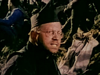 Bert Freed in the film The Snows of Kilimanjaro (1952).